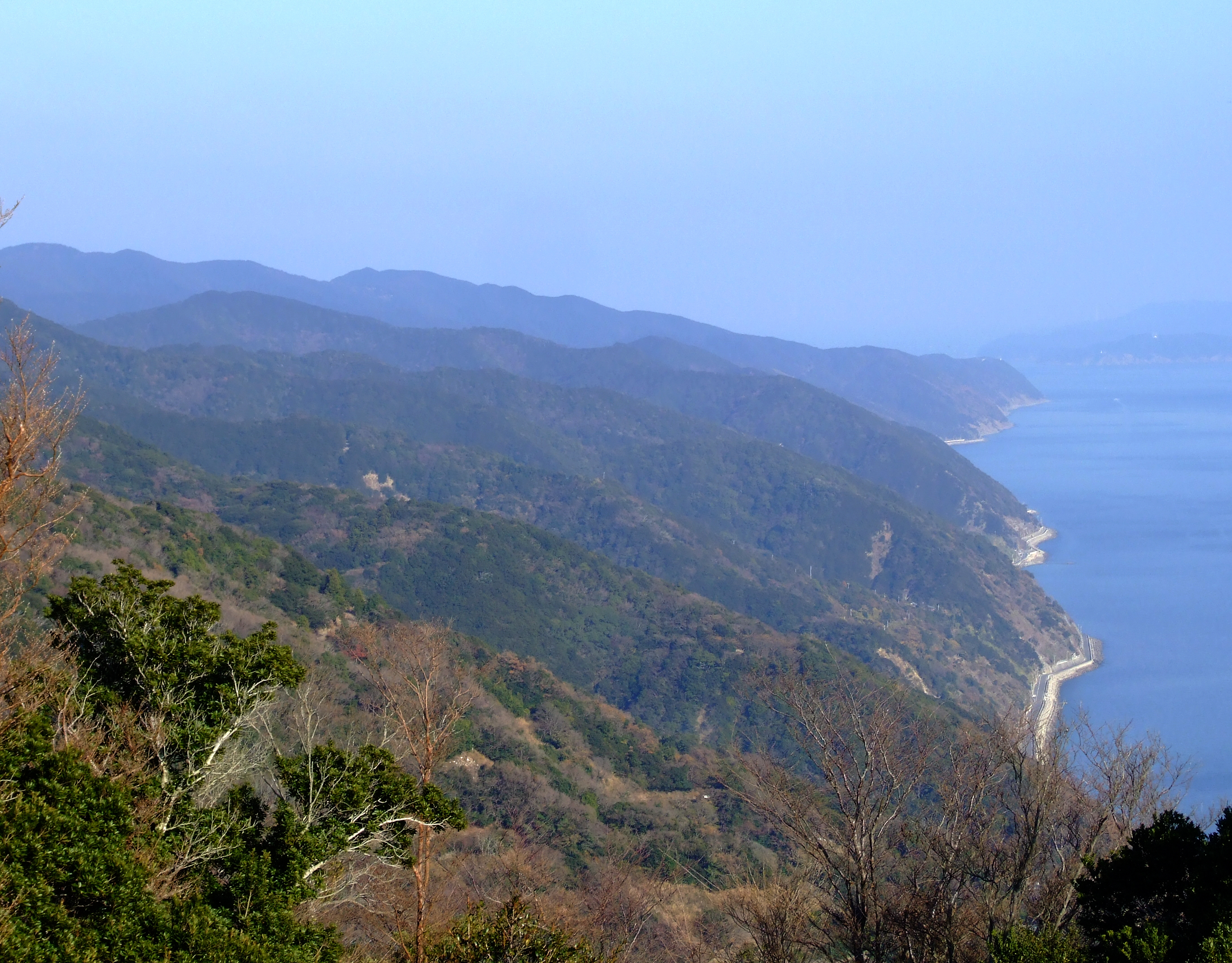 Yuzuruha Mountains on the Awaji Island in Hyogo Prefecture, Japan